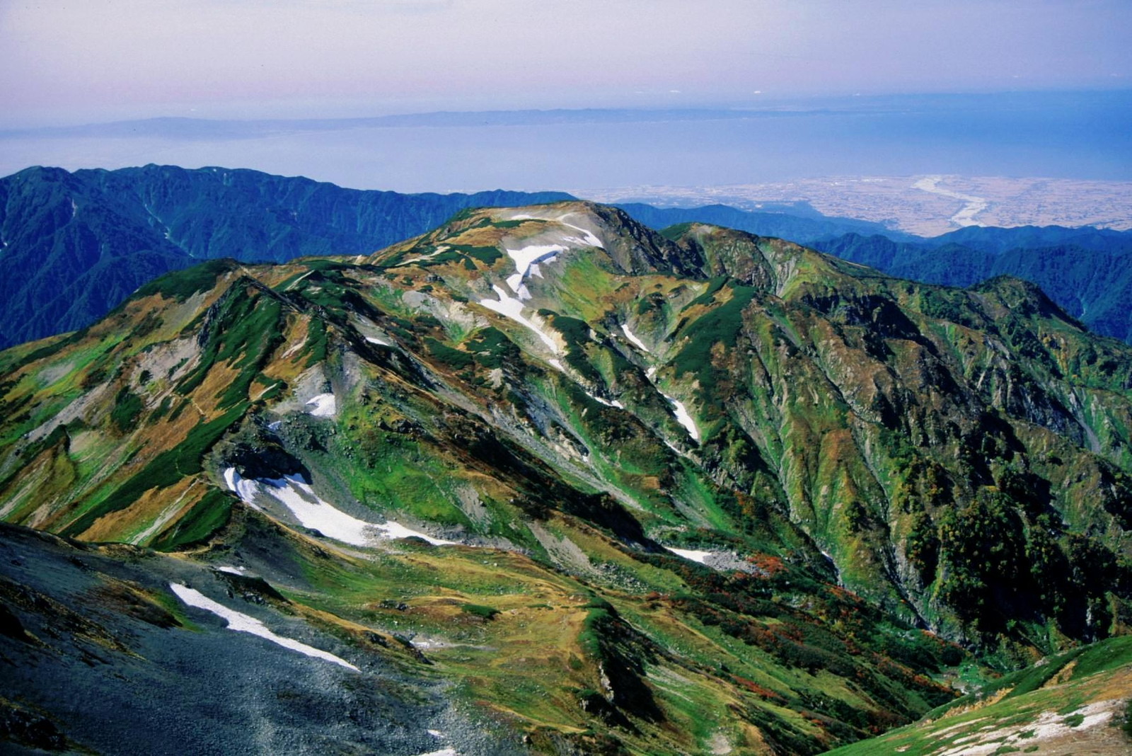 Mount Shozu and Sea of Japan seen from Mount Asahi in Ushirotateyama Mountains, Kurobe, Toyama Prefecture, Japan.